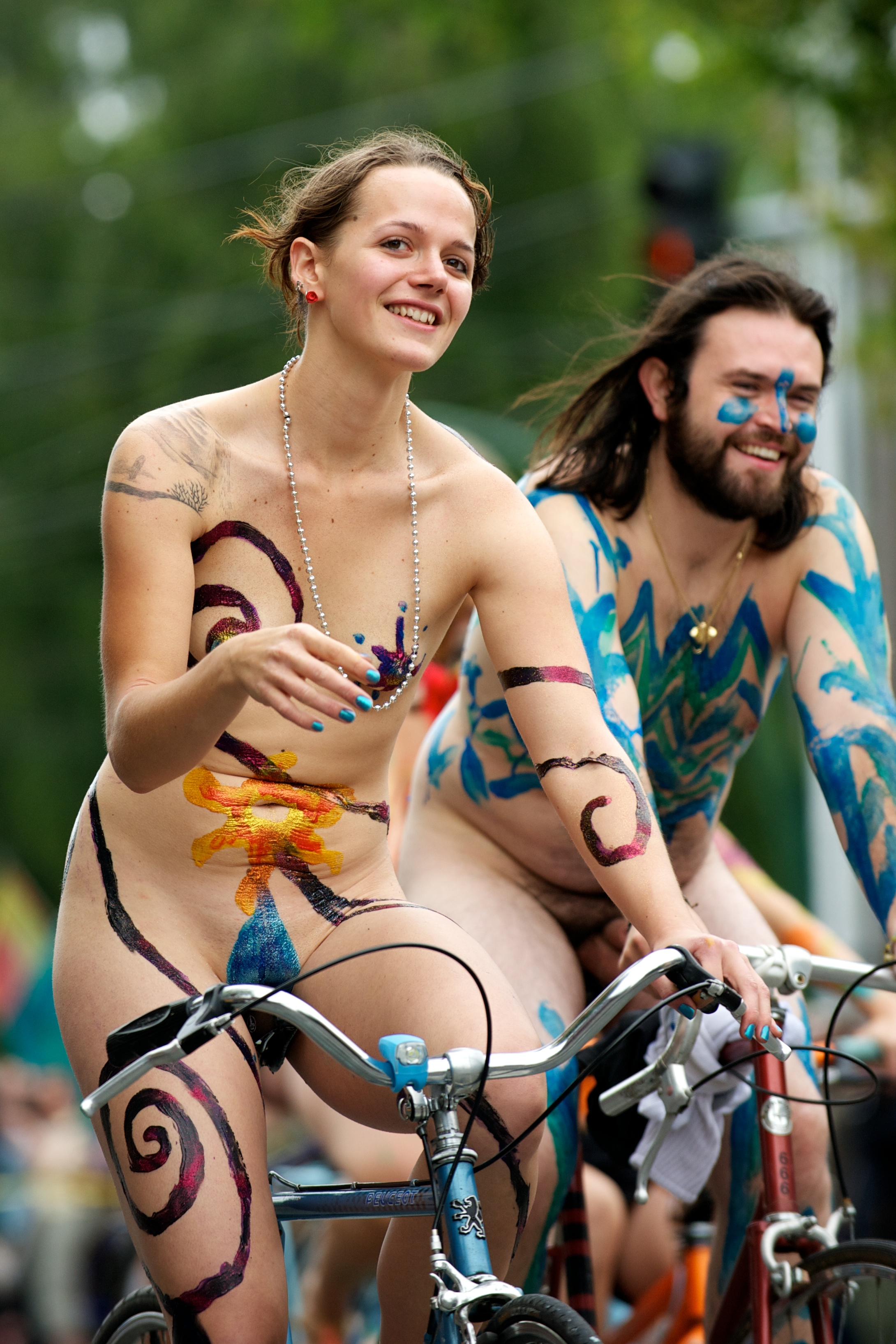 Fremont Solstice Parade